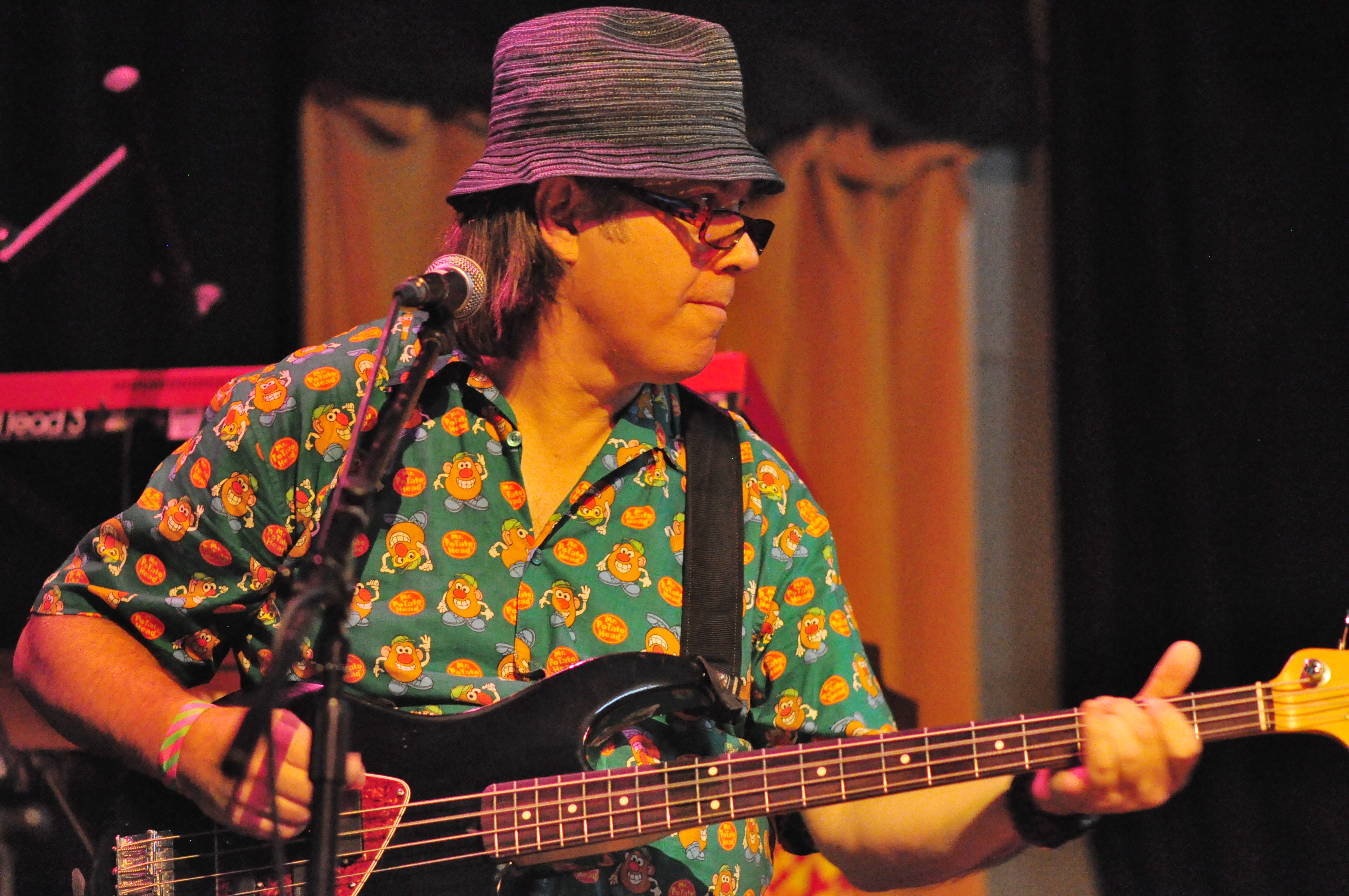 Marty Ross playing Friday September 9, 2016 with Prairie's Hermits, Mirkwood and Shire Cafe, Arlington, Washington, U.S. (Normally Ross is a guitarist; unusually on that occasion he was playing bass.)